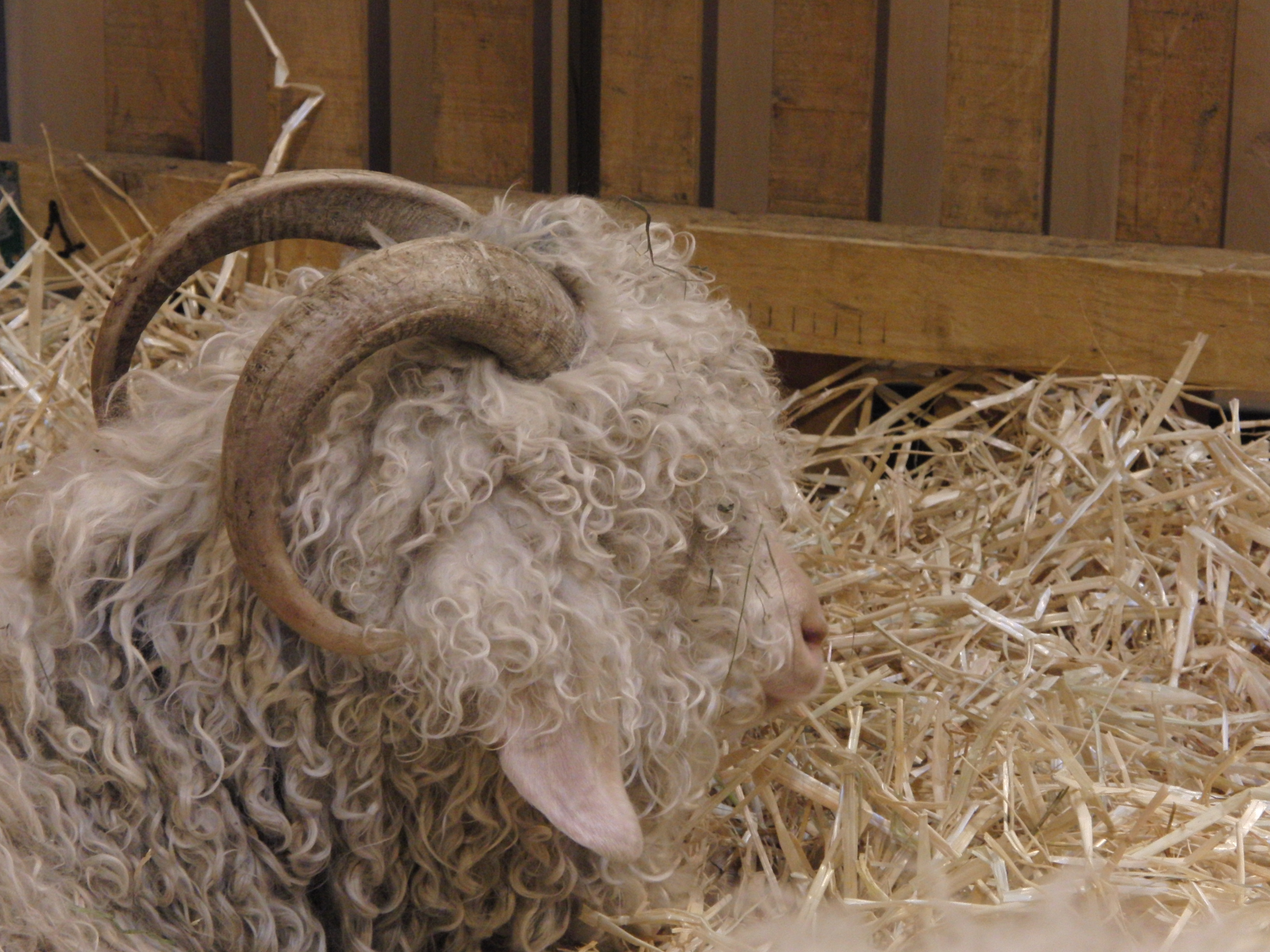 Angora goat's head - Salon international de l'agriculture 2011, Paris, France